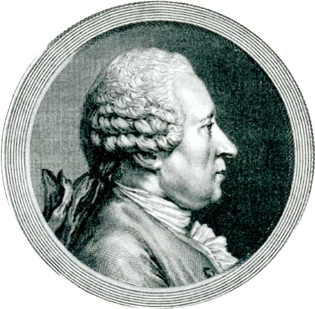 Left profile medallion of Marc-Antoine-Nicolas de Croismare, Marquis of Lasson (1694-1772)